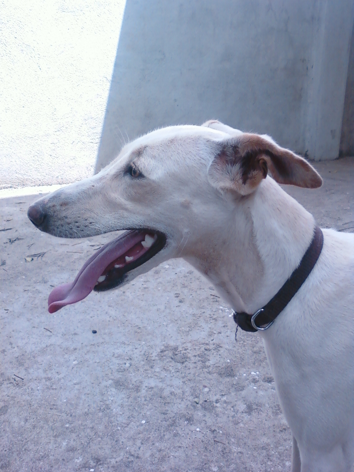 Chippiparai Head Study